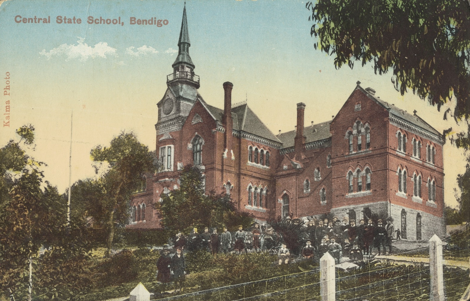 Postcard showing Camp Hill Primary School, Bendigo, Victoria, Australia